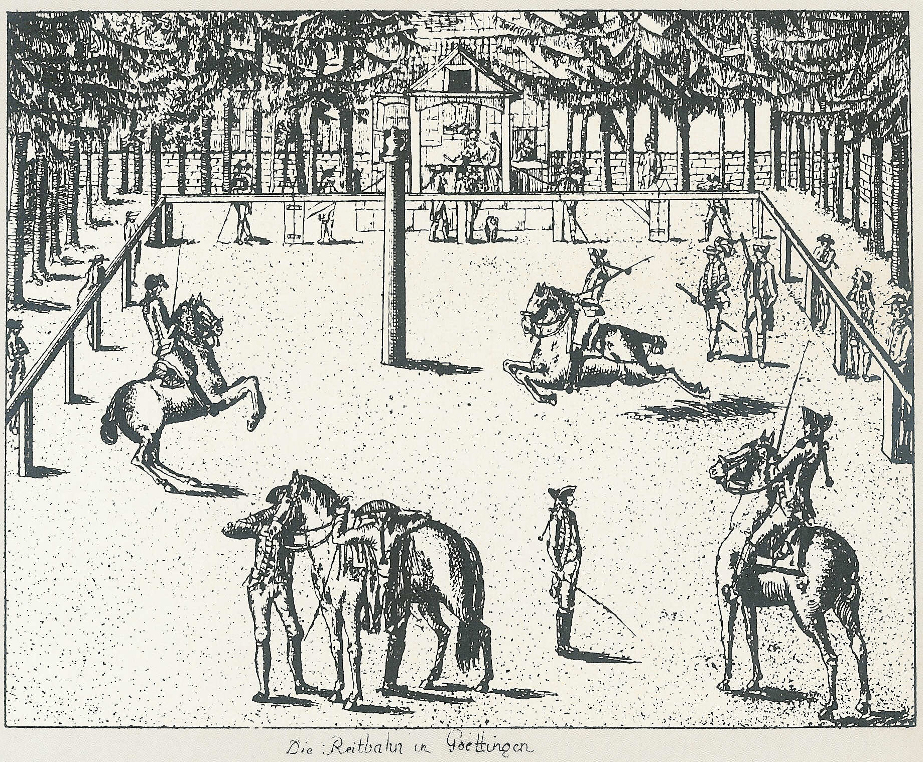 Sheet from "Stammbuch" of G. D. Schramm, original in the Göttingen State and University Library